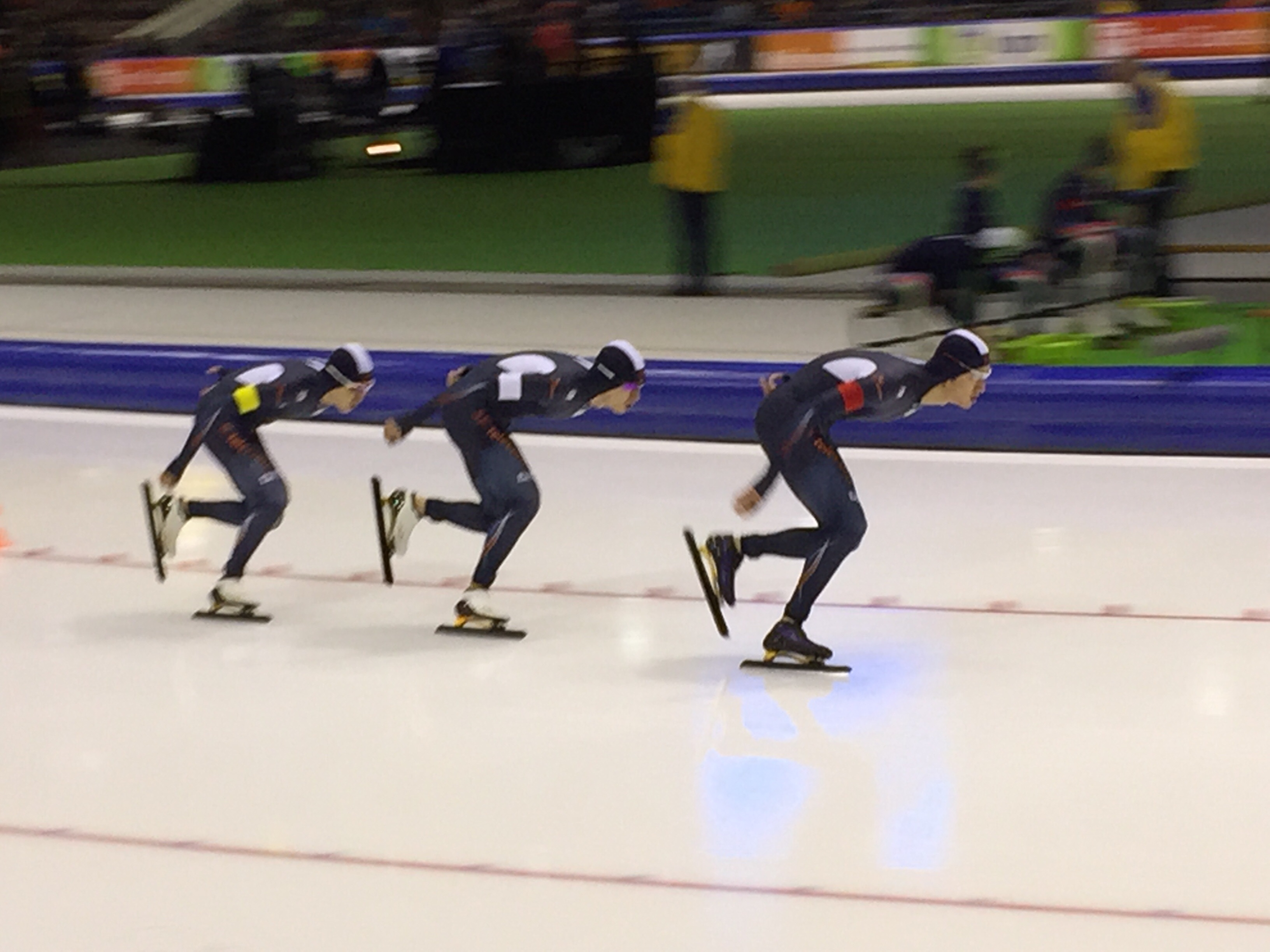 2015 World Single Distance Speed Skating Championships, mens team pursuit (